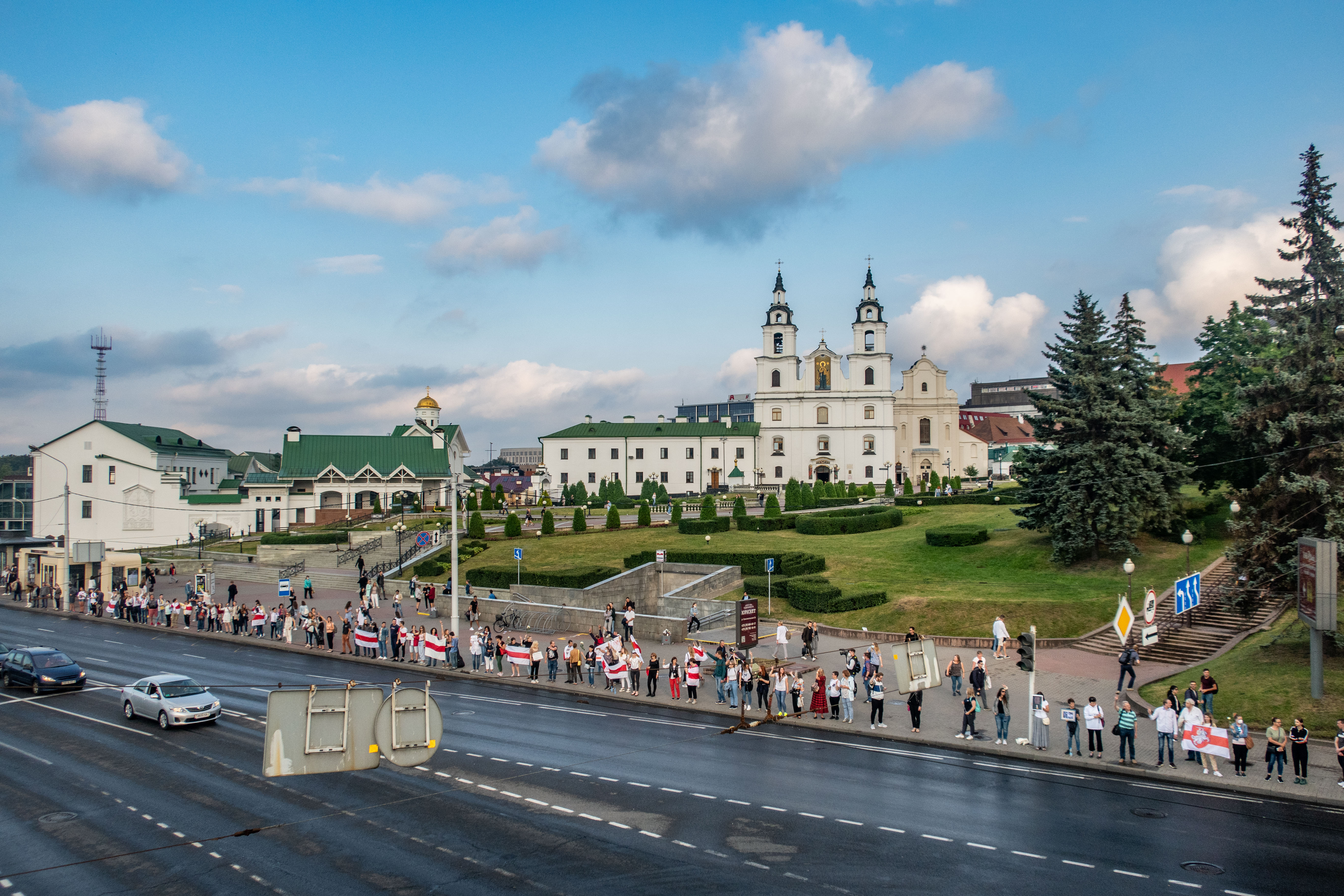 Line against violence ("Never again"), 21 August 2020. Minsk, Belarus